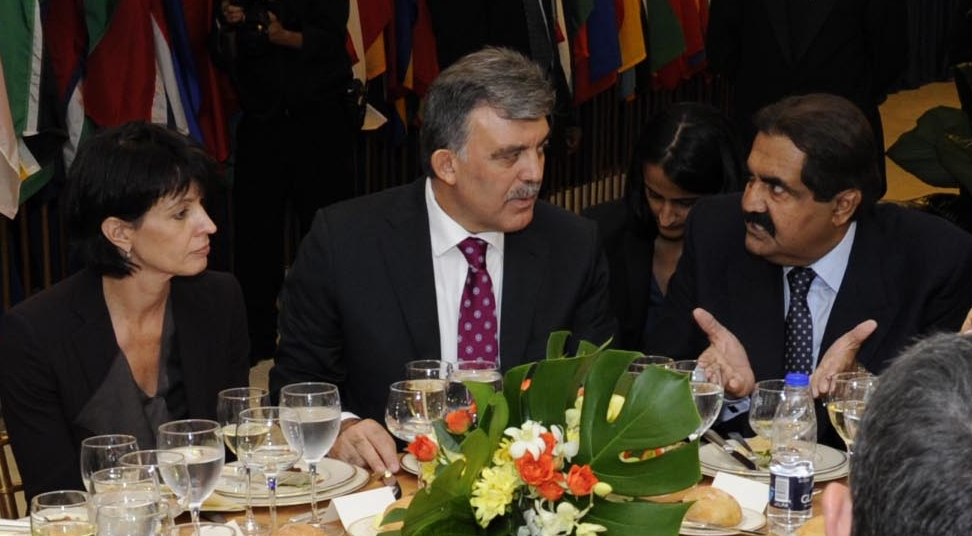 Swiss president Doris Leuthard (L), Turkish president Abdullah Gül (2nd L), Qatar Sheikh Hamad bin Khalifa Al-Thani (3rd L) and other world leaders during UN General Assembly meeting 2010